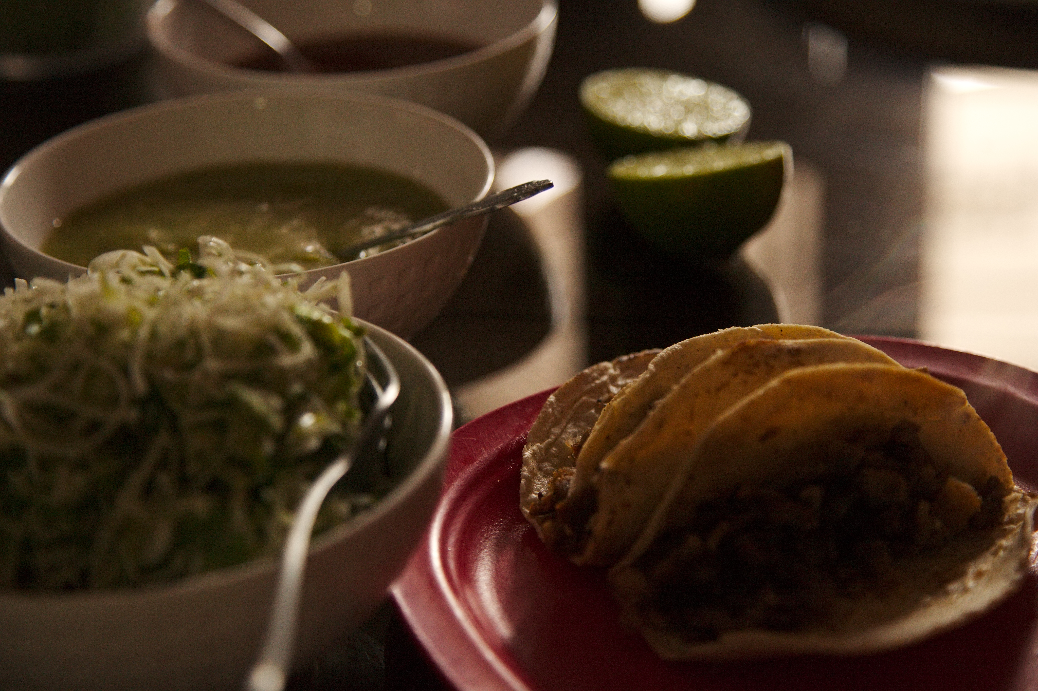 Local Tacos in Ameca, Jalisco, Mexico